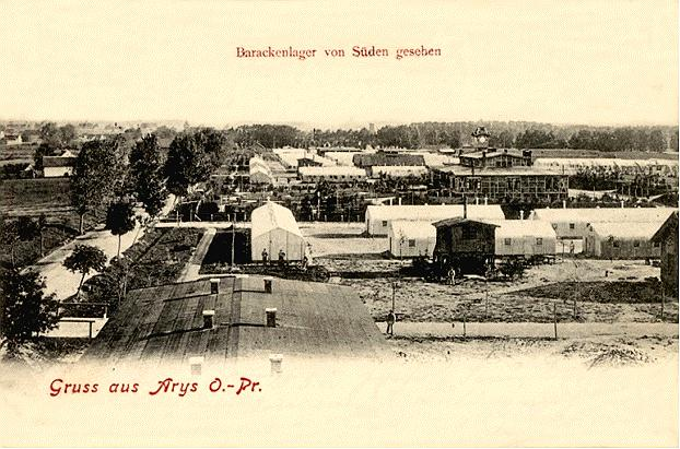 Military camp in Arys about 1900